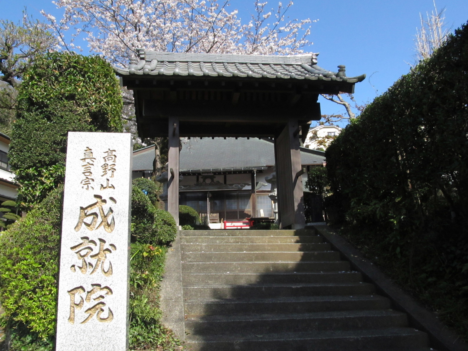 Sanmon at Jōju-in in Fujisawa City, Kanagawa Prefecture, Japan